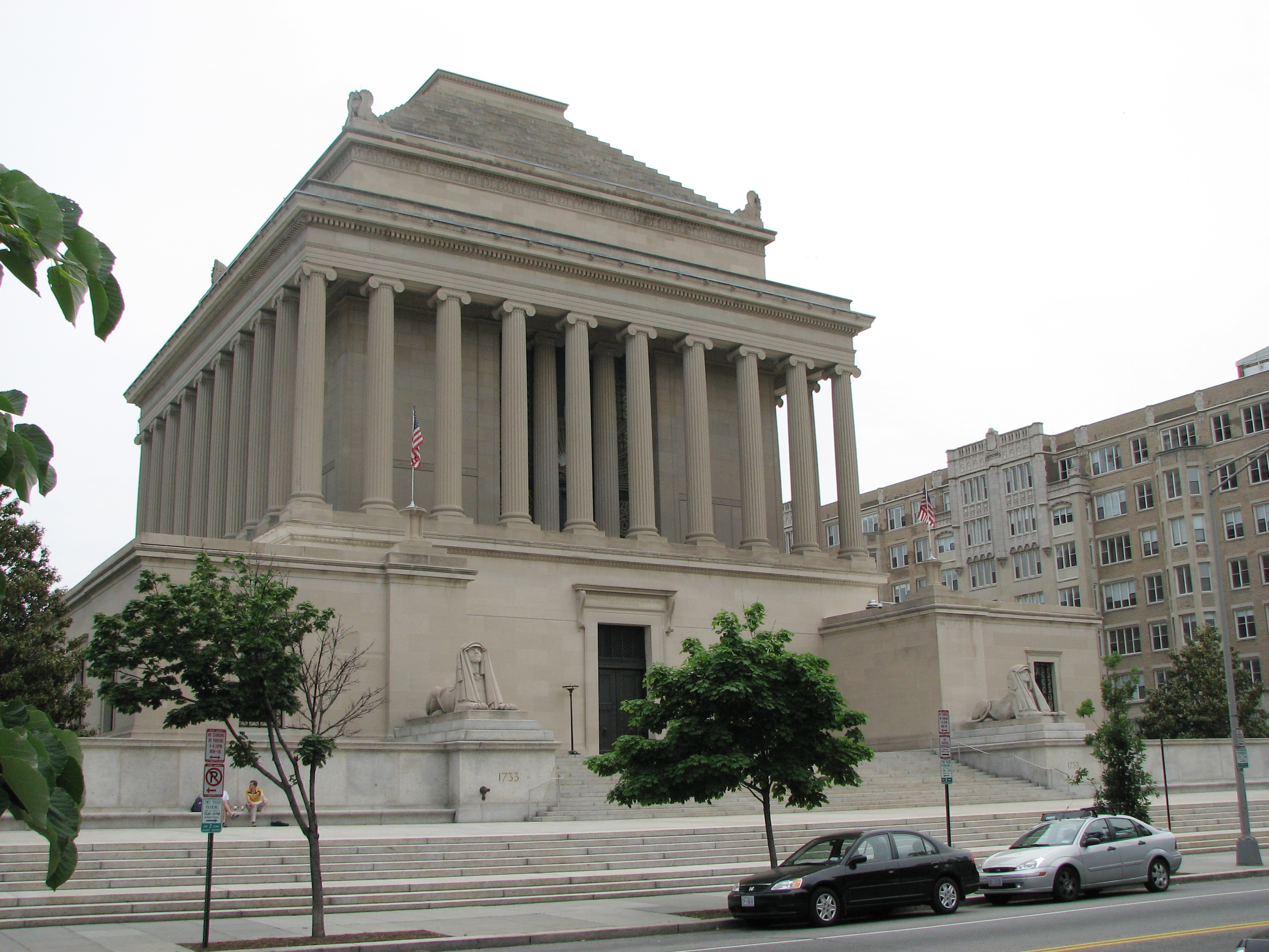 Masonic Temple (Ancient and Accepted Scottish Rite) in Washington, DC, USA.